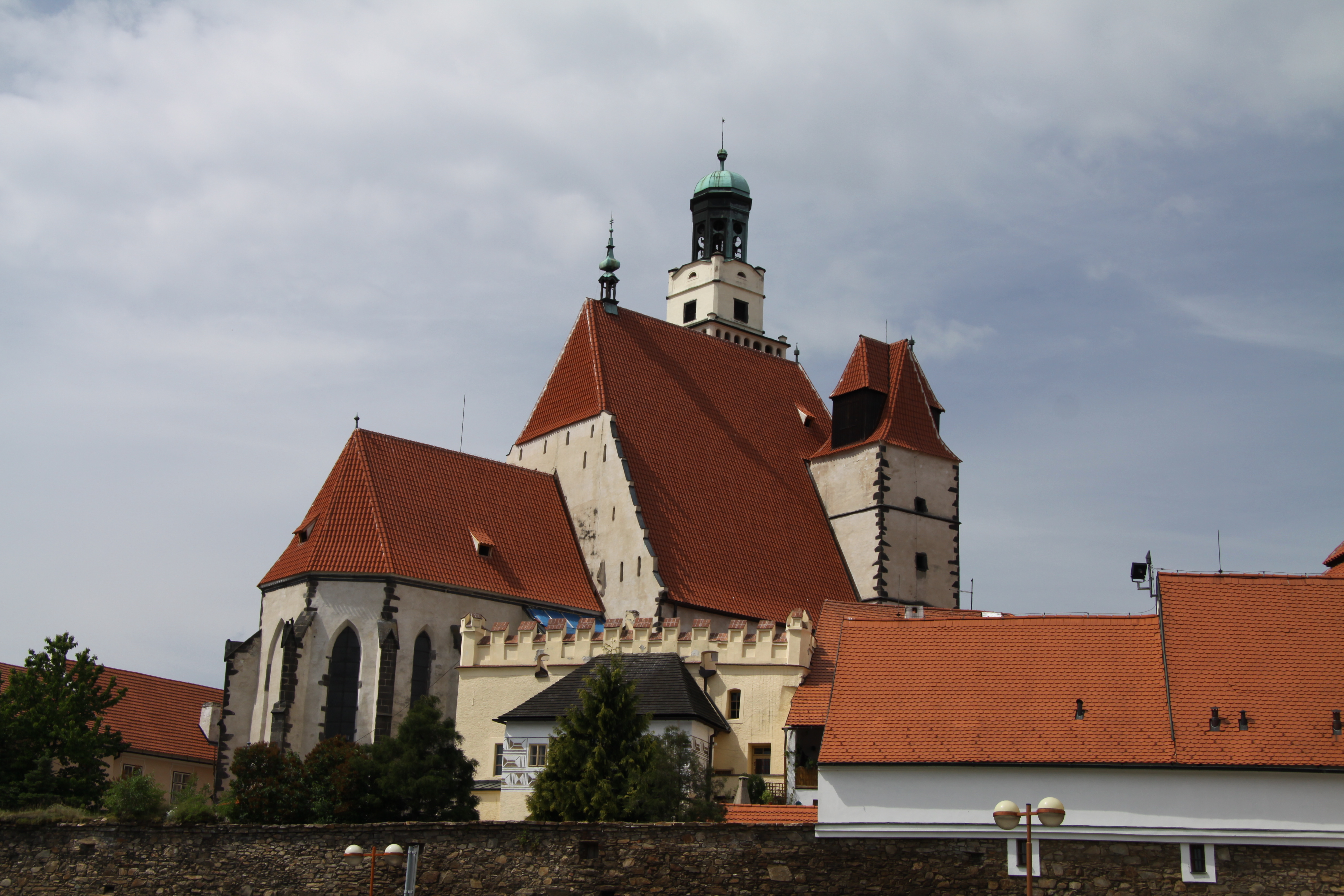 St. James' Church in Prachatice, Prachatice District, Czech Republic - Google Maps - Google Earth